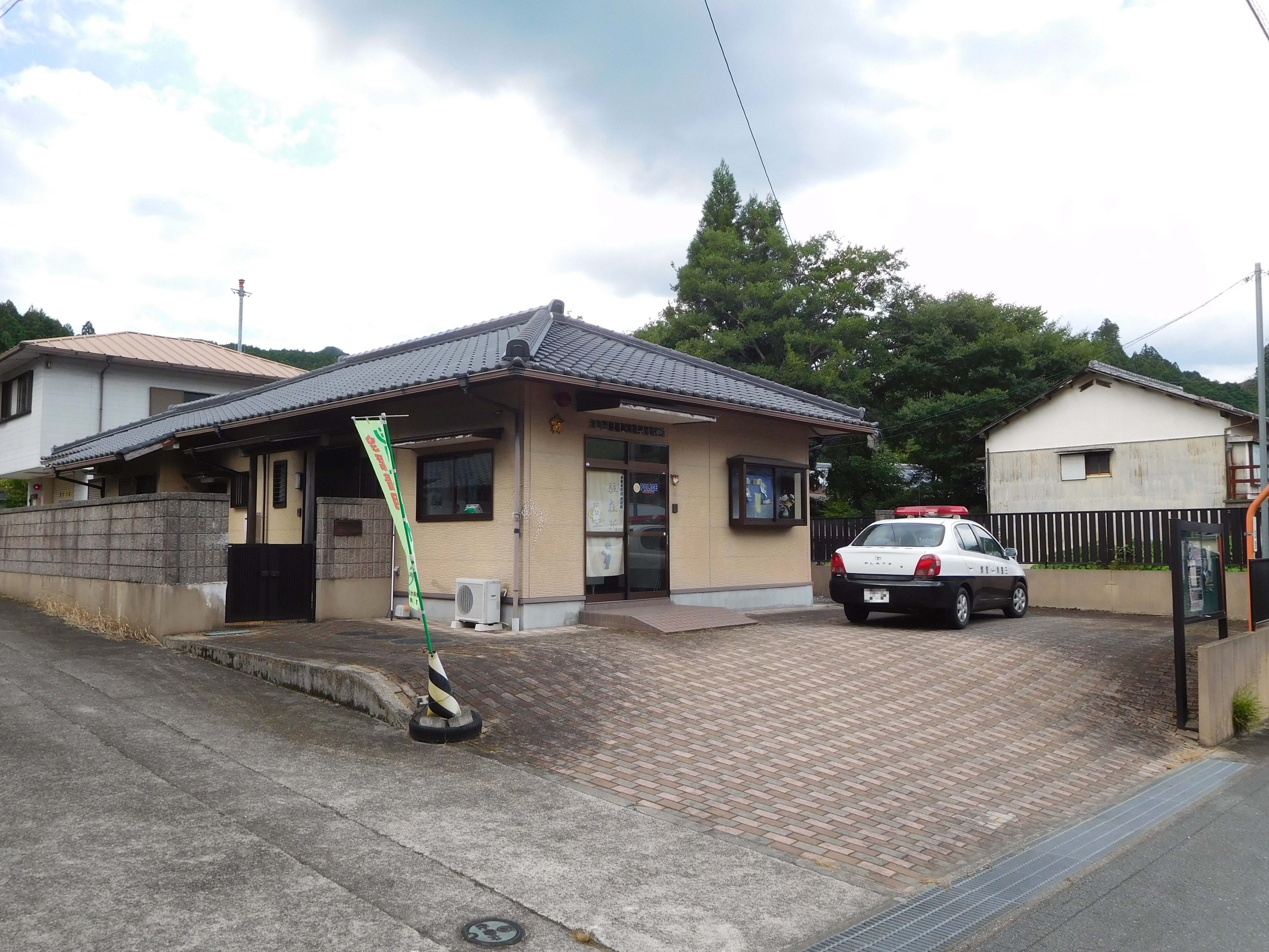 This is Okitsu Residential Police Box in Tsu, Mie, Japan.